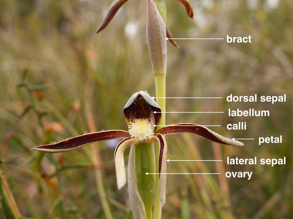 Lyperanthus flower with correct labels